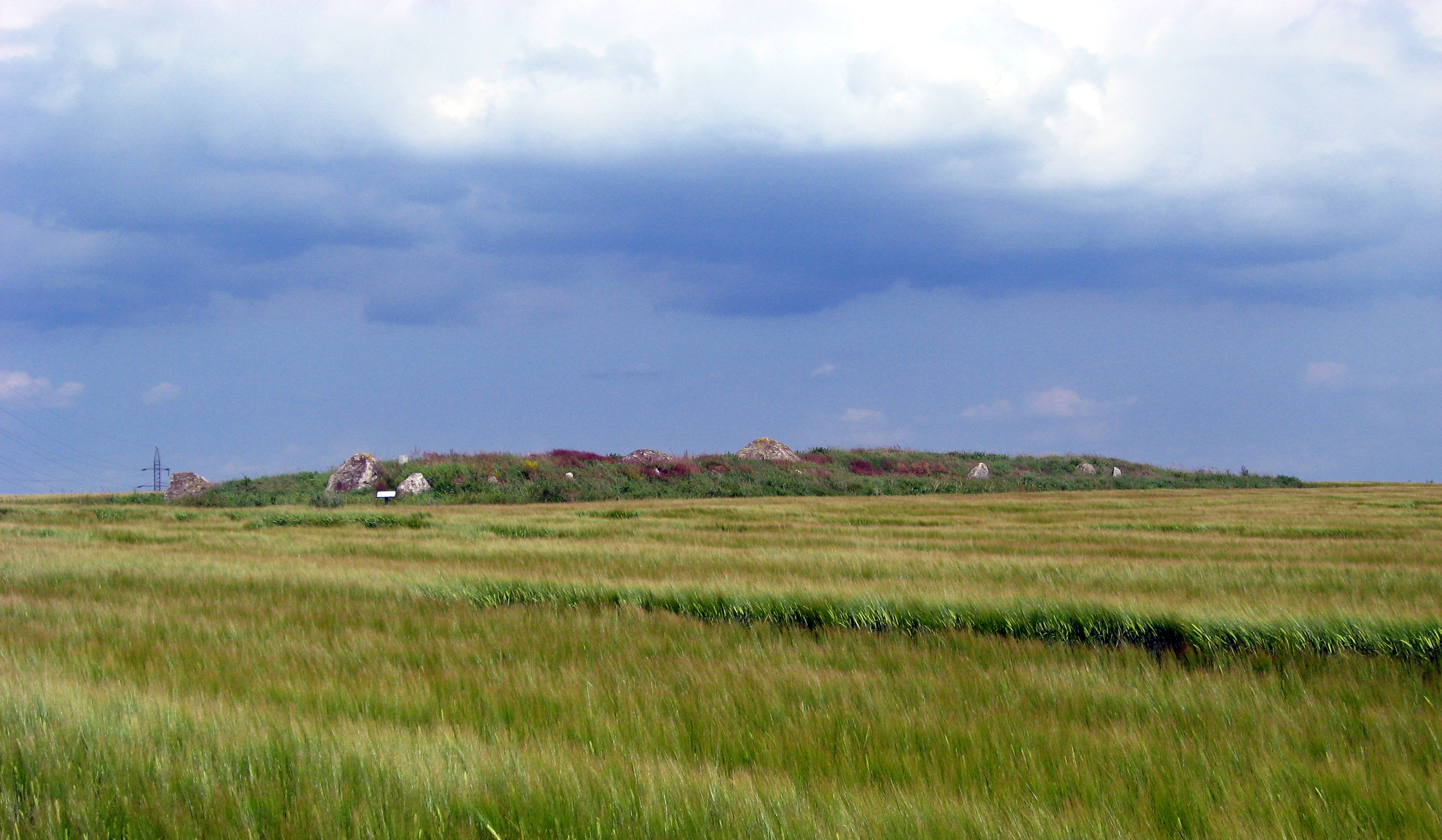 Dolmen in Skræm, Denmark